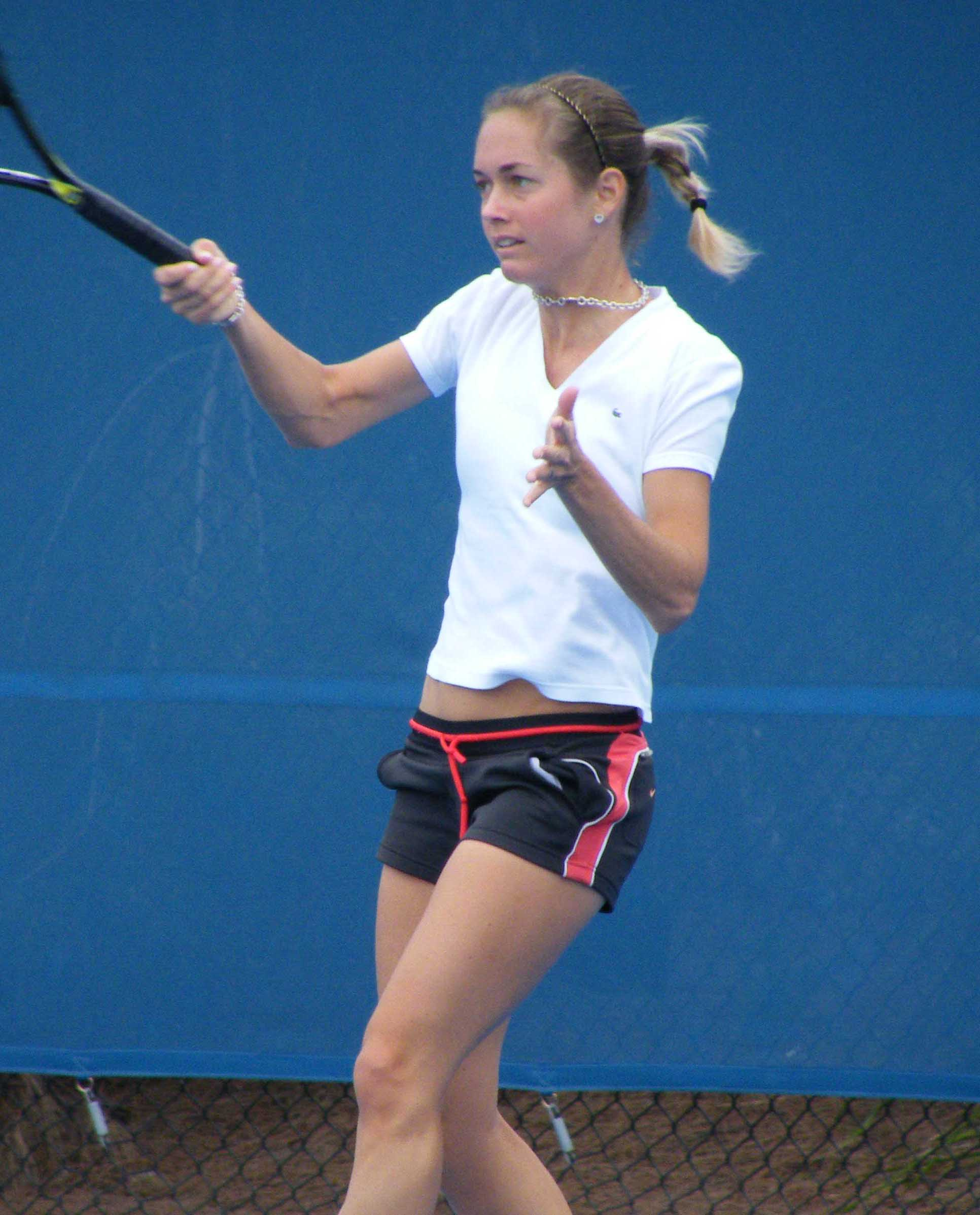 Klara Zakopalova from the Czech Republic - NSW Tennis Open, January 2009.